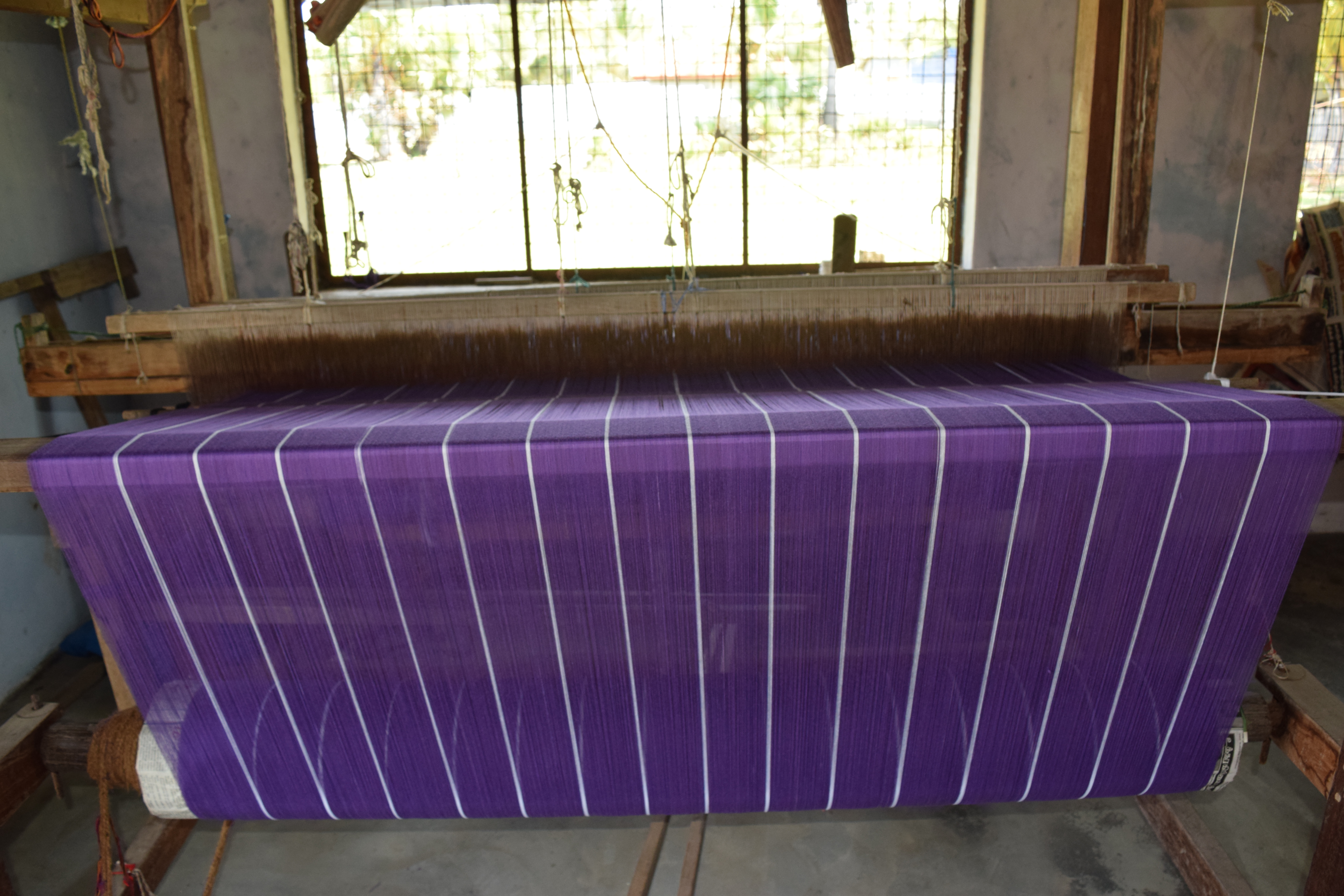 சேலை நெய்ய பயன்படும்